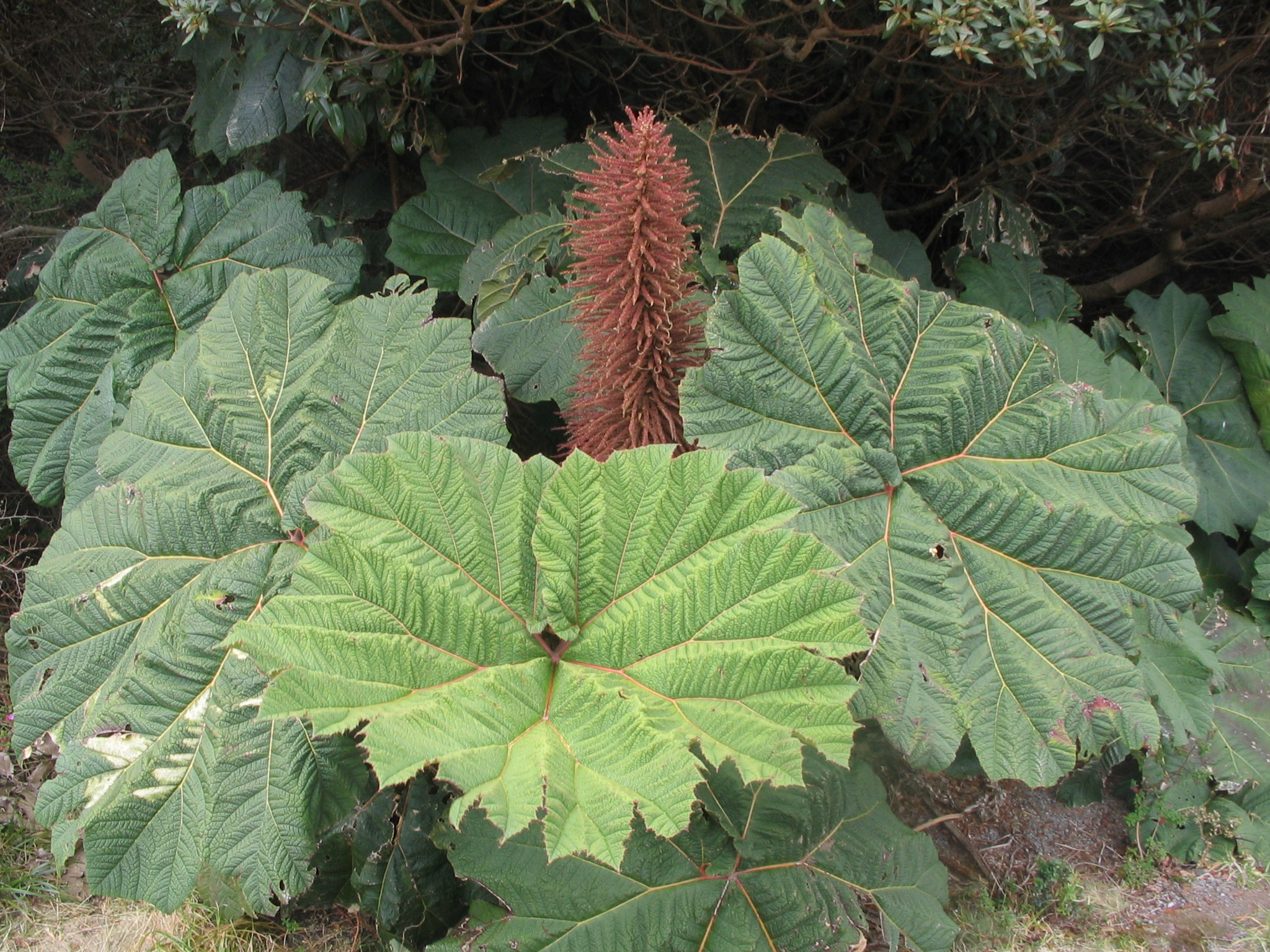 Gunnera insignis near Poás volcano, Costa Rica